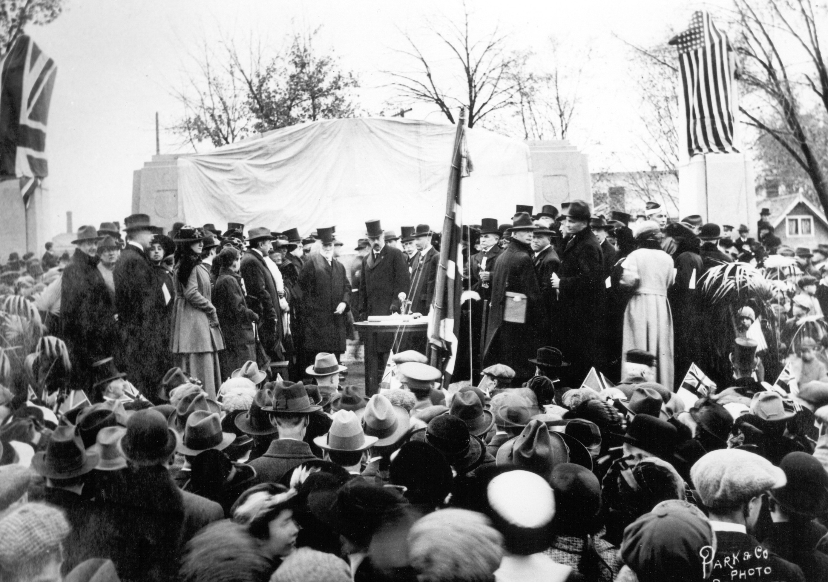 From the Brantford Public Library's website: "[Member of Parliament] W. F. Cockshutt first broached the idea of building a memorial in honour of Alexander Graham Bell, the inventor of the telephone. The Bell Telephone Memorial Association was incorporated in 1906. Over $65,000 was raised through donations from the federal and provincial governments and from citizens in Brant County and elsewhere. In 1908 sculptors were asked to submit plans for the memorial to the designs committee. Walter S. Allward of Toronto won the competition. The memorial was originally supposed to be completed by 1912 but was actually not finished until five years later. The site chosen for the monument was in Bell Memorial Gardens, a small park bounded by Wellington, King, and West Streets. The memorial was designed by Allward to symbolize the telephone's annihilation of space. A series of steps go up to the main section where the figure "Inspiration" appears over a reclining male figure while the floating figures of "Knowledge", "Joy", and "Sorrow" are positioned at the other side. At each end of the memorial there are two female figures representing humanity. "To commemorate the invention of the telephone by Alexander Graham Bell in 1874" is inscribed on the monument. The Duke of Devonshire, the Governor General of Canada, unveiled this memorial on October 24, 1917 (Brantford Expositor, October 24, 1917, p. 1). Alexander Graham Bell made a speech and presented the Governor General with a commemorative silver telephone" [seen on the table, centre].